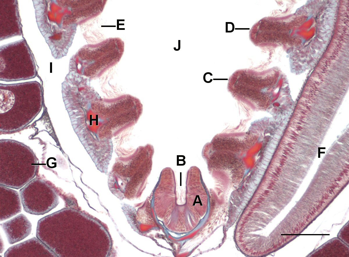 Cross section through the ventral, pharyngeal region of the Lancelet Branchiostoma. A: Endostyle, B: Cilia, C: Secondary gill bar, D: Primary gill bar, E: Lateral cilia, F: Intestine, G: Ovary, H: Cartilaginous support rod, I: Artium, J: Pharyngeal cavity.